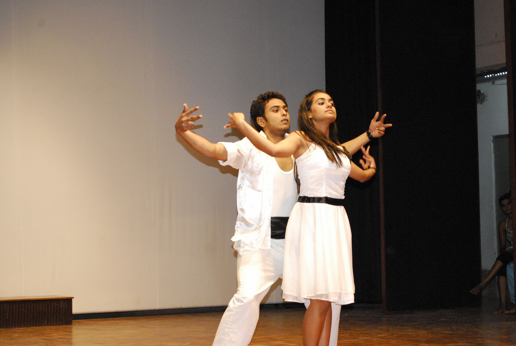 Rendezvous2010